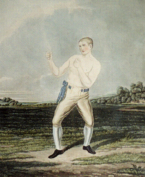 Antique Aquatint by Charles Hunt. London. Published April 10, 1846 by J. Moore. Subject is the 19th century boxer "Bendigo" Thompsom. This image is a work of art in the public domain by virtue of its age over 160 old at the time of uploading.